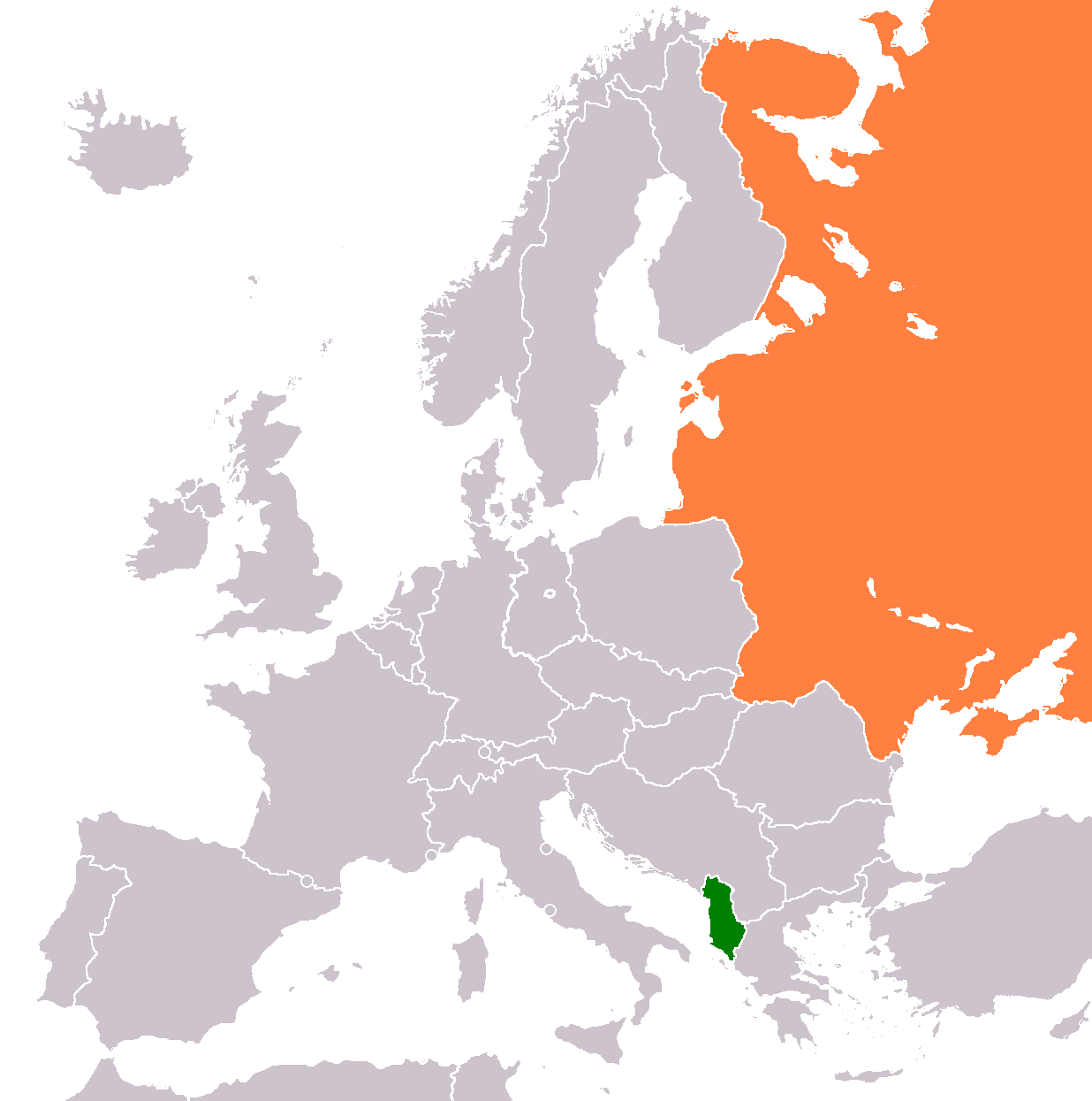 Europe, Albania (green) and the Soviet Union (orange) highlited.